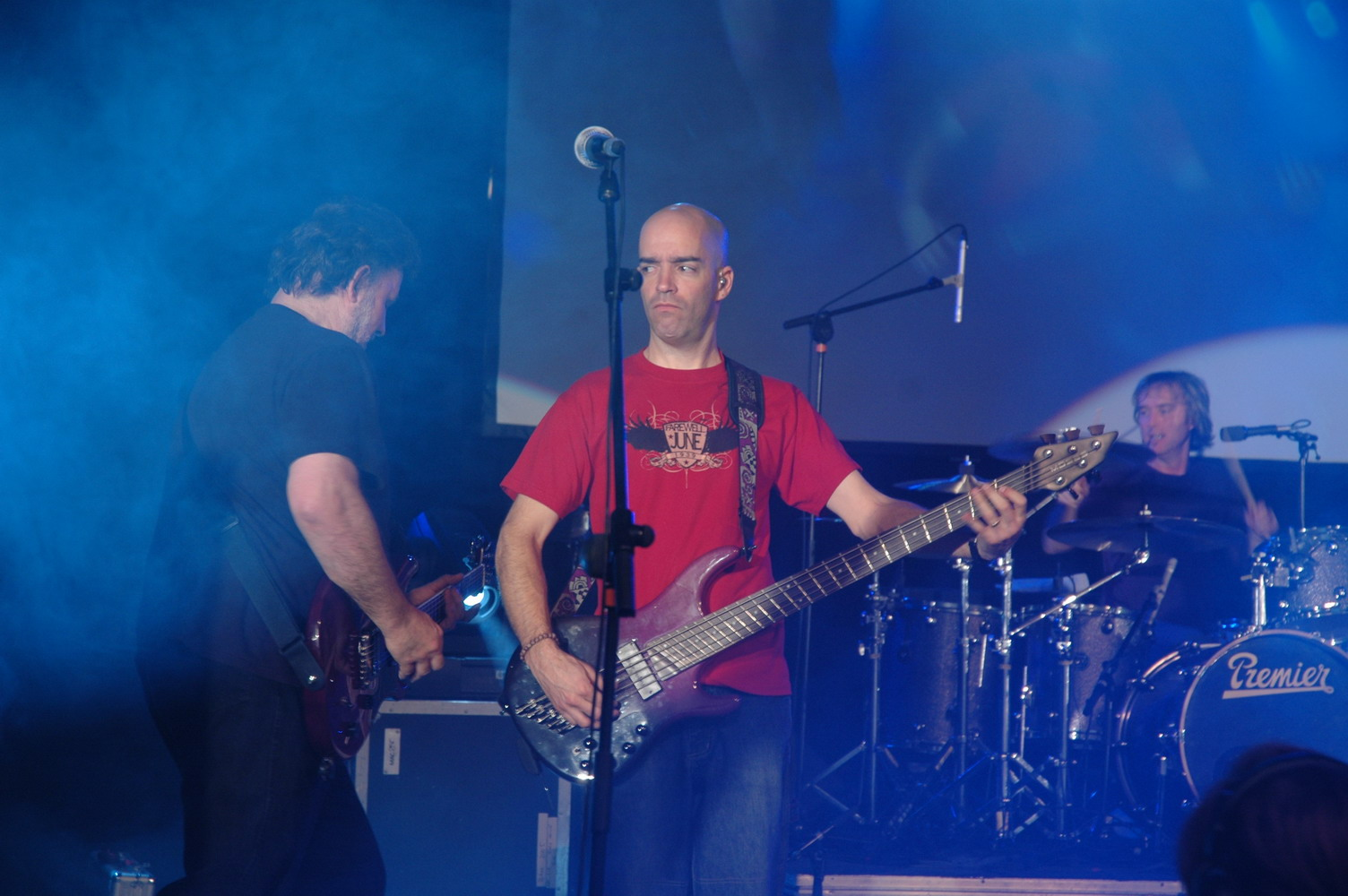 Greg Bailey